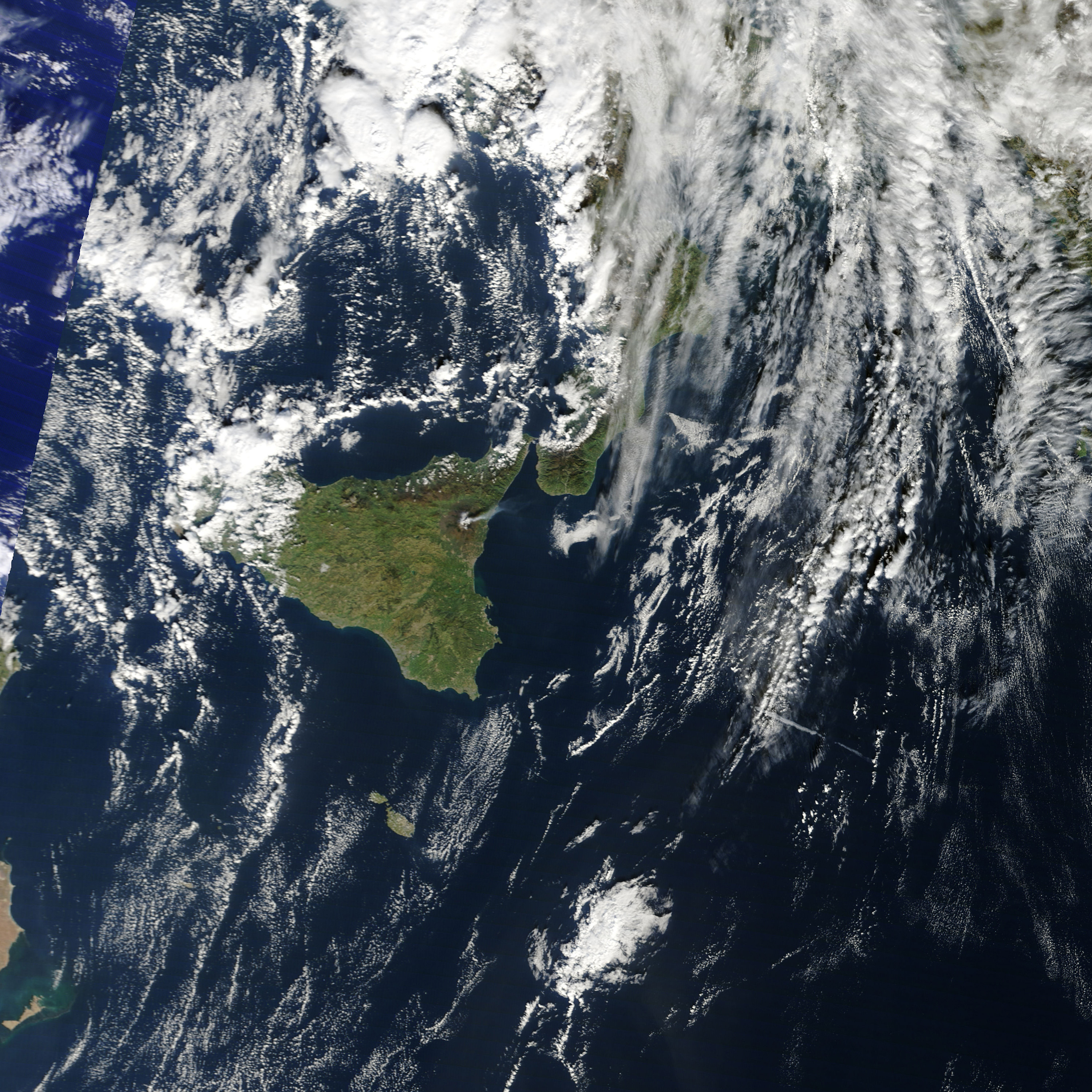 Image of the east coast of Sicily and of Mount Etna as it was spewing ash or steam on January 11 2011, before a lava eruption.